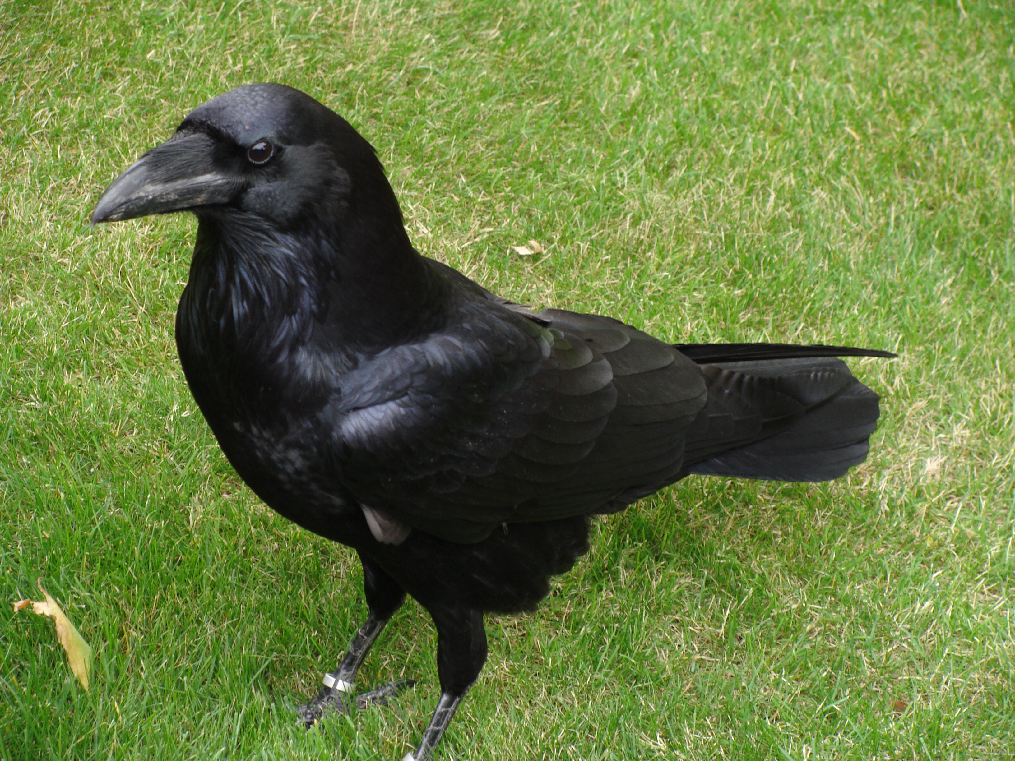 Corvus corax (Raven) in Tower of London.